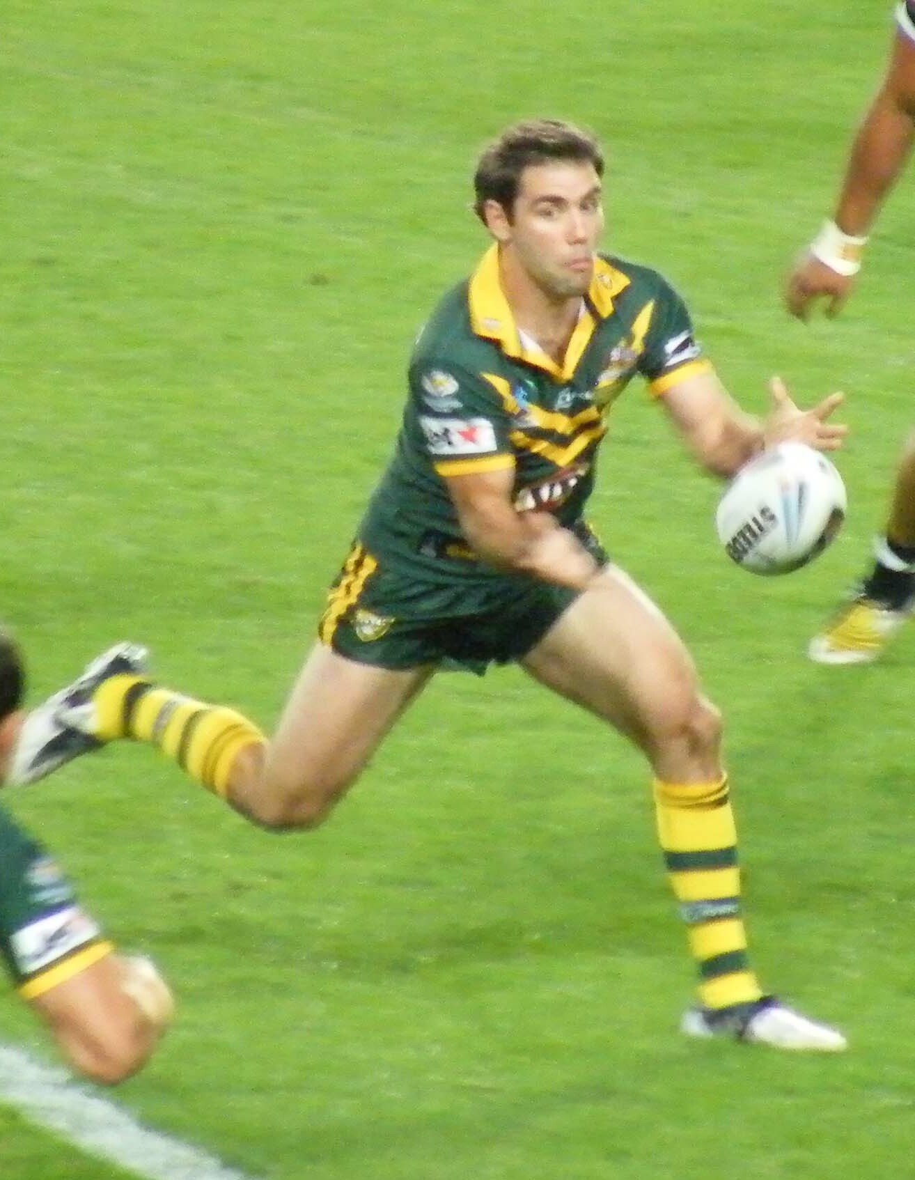 Australian Hooker Cameron Smith - RLWC 2008.